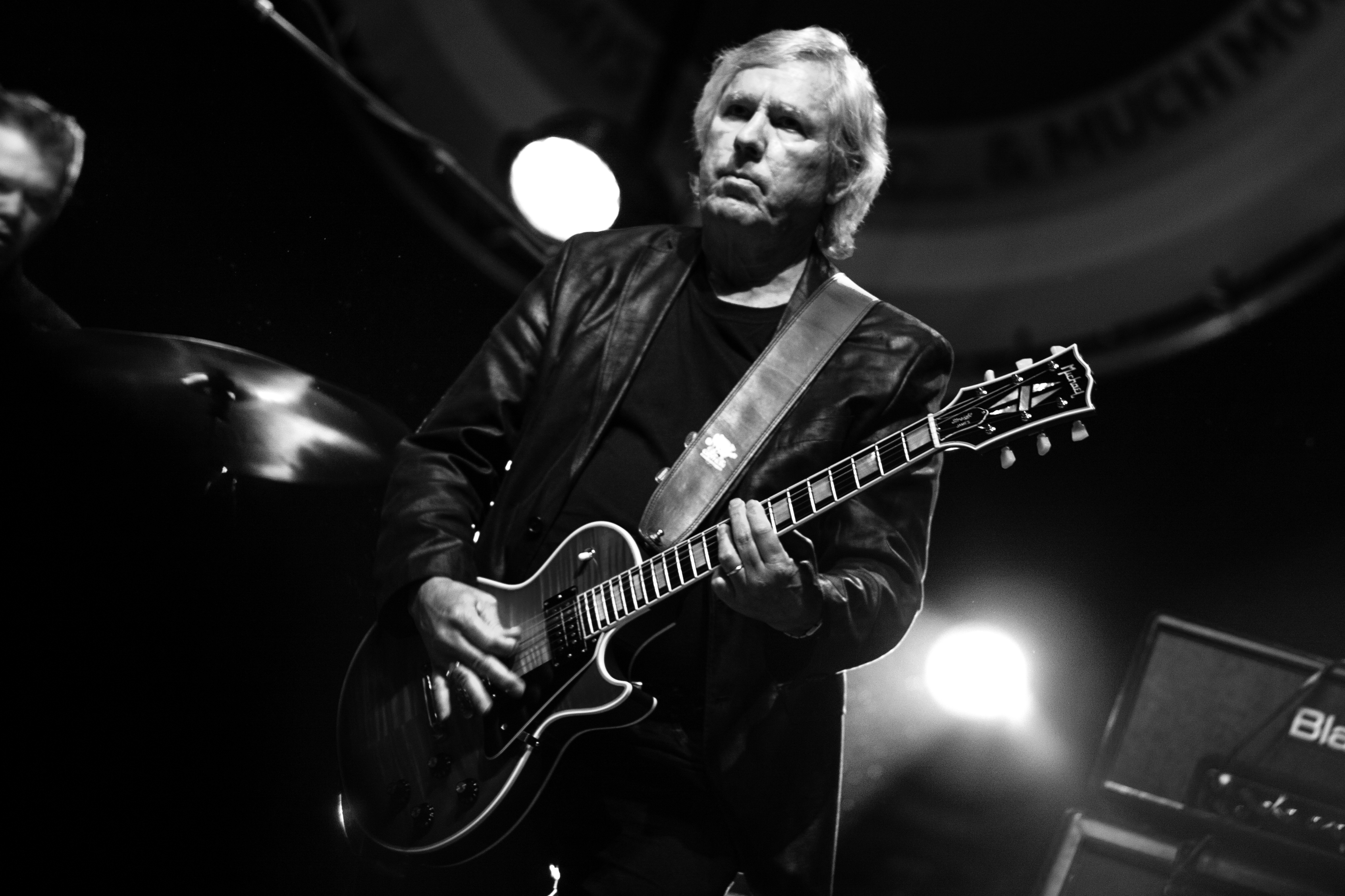 James Wiliamson Follow me on facebook Twitter : @didyPhotography All the photographies I've made are now under CC0 (Creative Commons Zero) CC0 - learn more To the extent possible under law, Eddy BERTHIER has waived all copyright and related or neighboring rights to Iggy & the Stooges @ Brussels Summer Festival 2012. This work is published from: France.